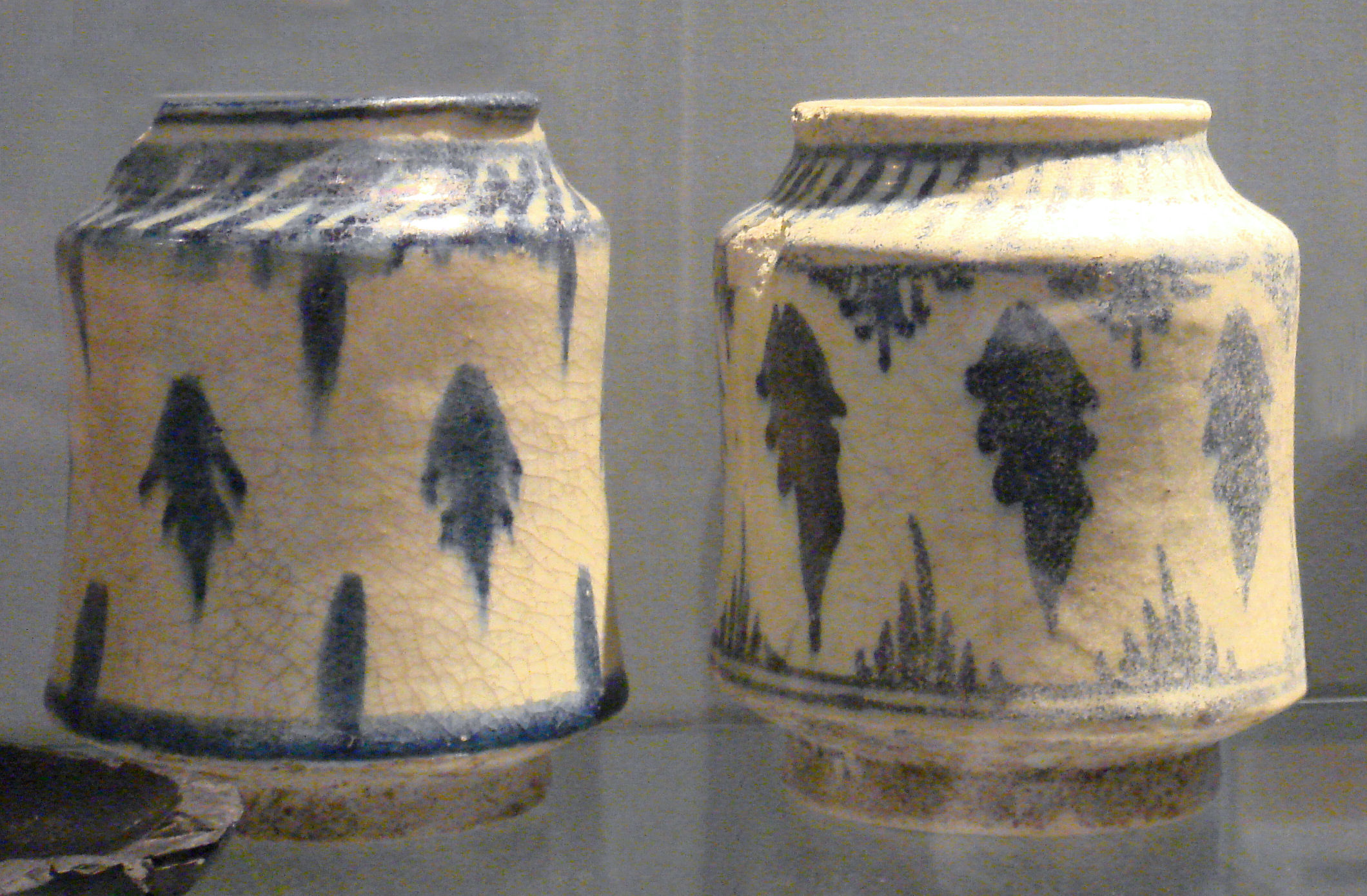 Syria_made_medicinal_jars_circa_1300_excavated_in_Fenchurch_Street_London.